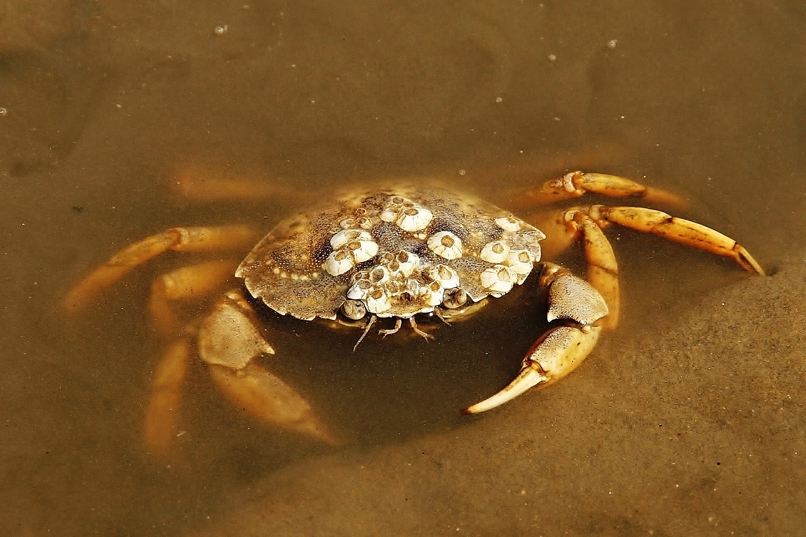 Northsea Crab Carcinus maenas